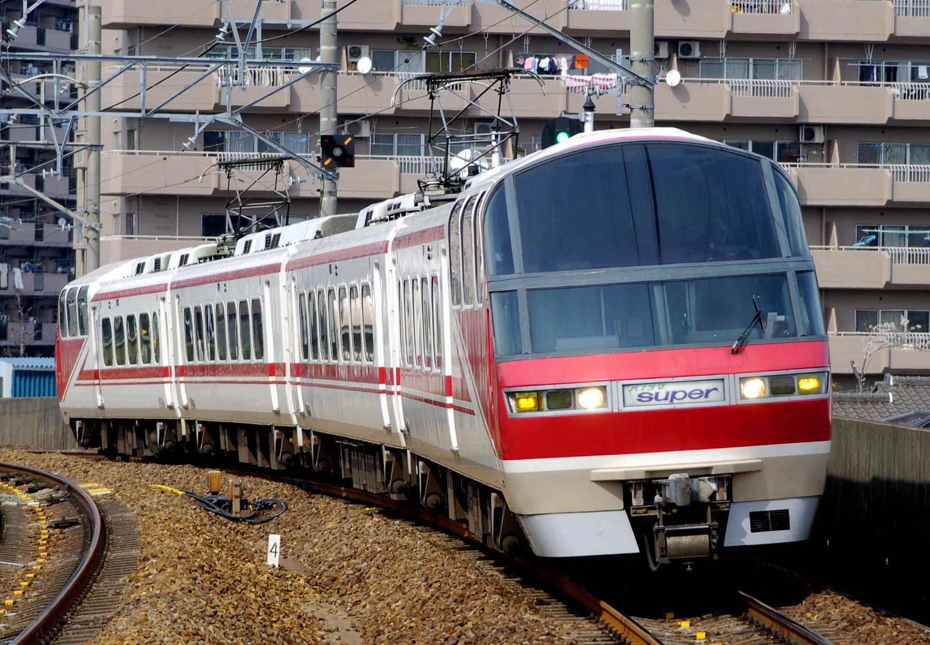 Nagoya Railway type 1000 electric car. 名古屋鉄道1000系、全車特別車両編成。豊田本町にて。